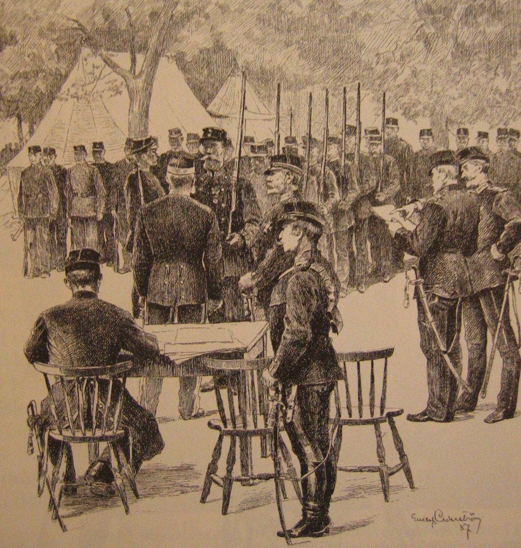 General muster of soldiers part of the Swedish allotment system.